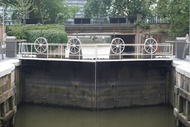 Grosvenor Canal, London Looking towards the River Thames, seen beyond the lock gates. Picture taken from the swing bridge above the bottom lock of Grosvenor Canal.